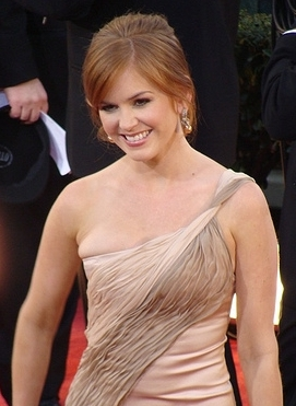 Isla Fisher at the Golden Globes